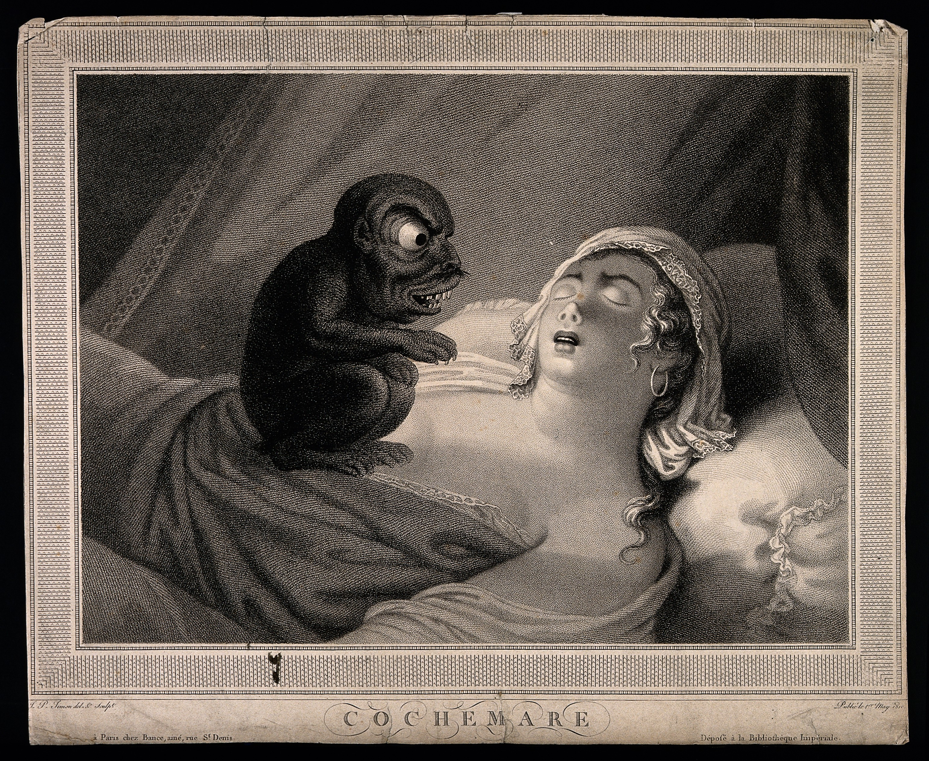 A perturbed young woman fast asleep with a devil sitting on her chest; symbolizing her nightmare. Stipple engraving by J.P. Simon, 1810, after himself. Iconographic Collections Keywords: NIGHTMARE; Jean Pierre Simon; j p simon; Dreams